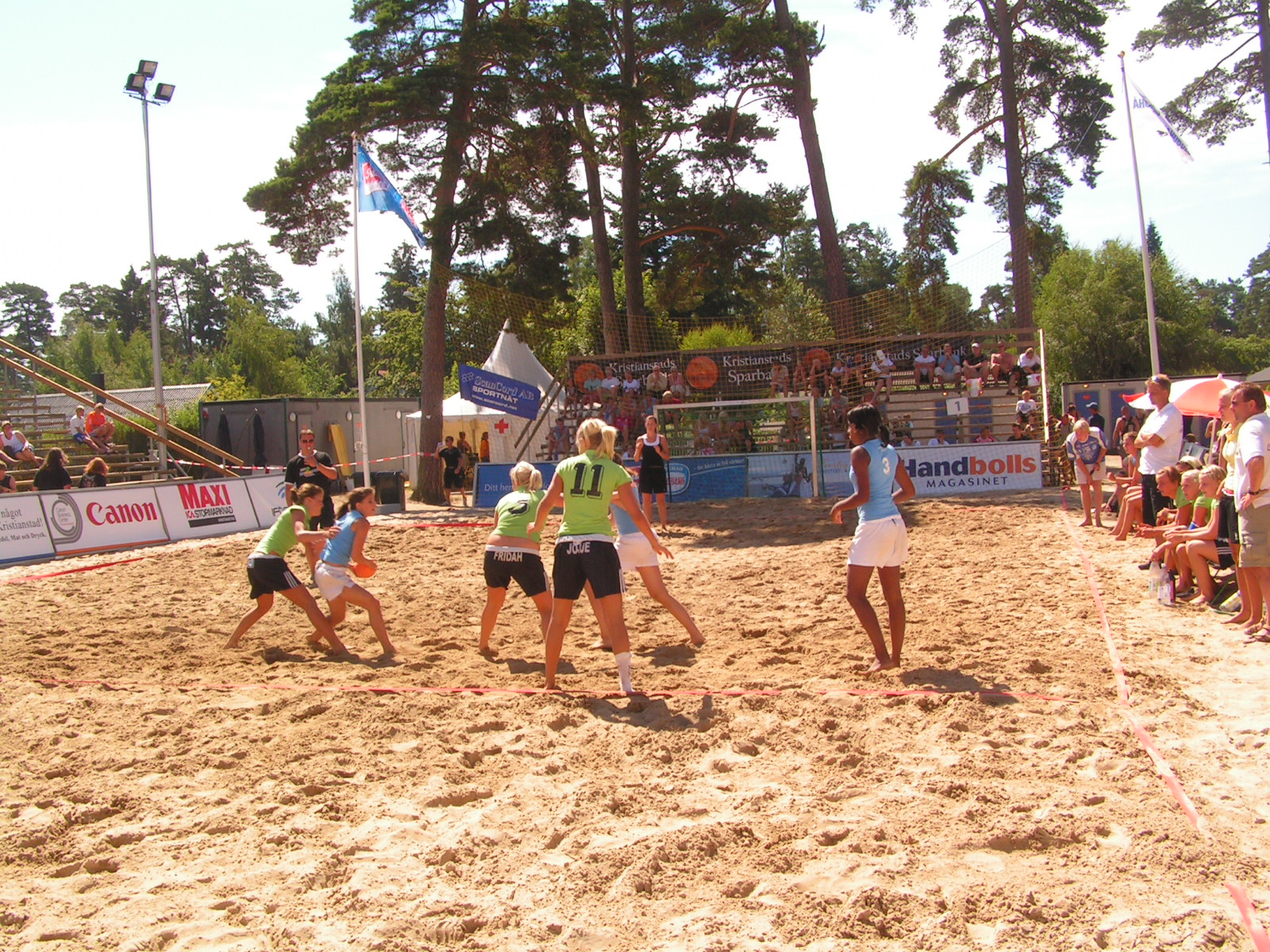 Match on Åhus Beachhandball Festival